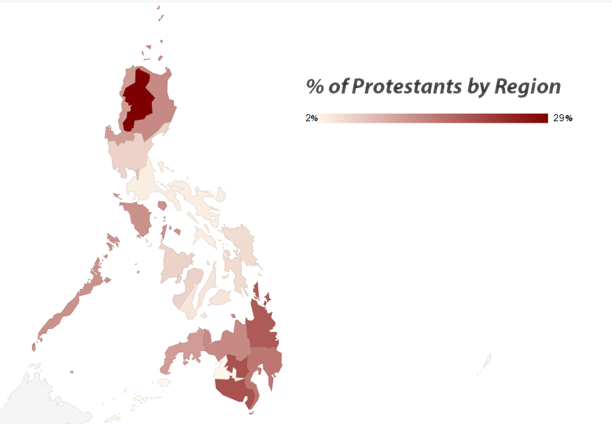 A map depiciting the percentage of Protestants by Region(Does not include Aglipayans(PIC)) Source: The attachments in